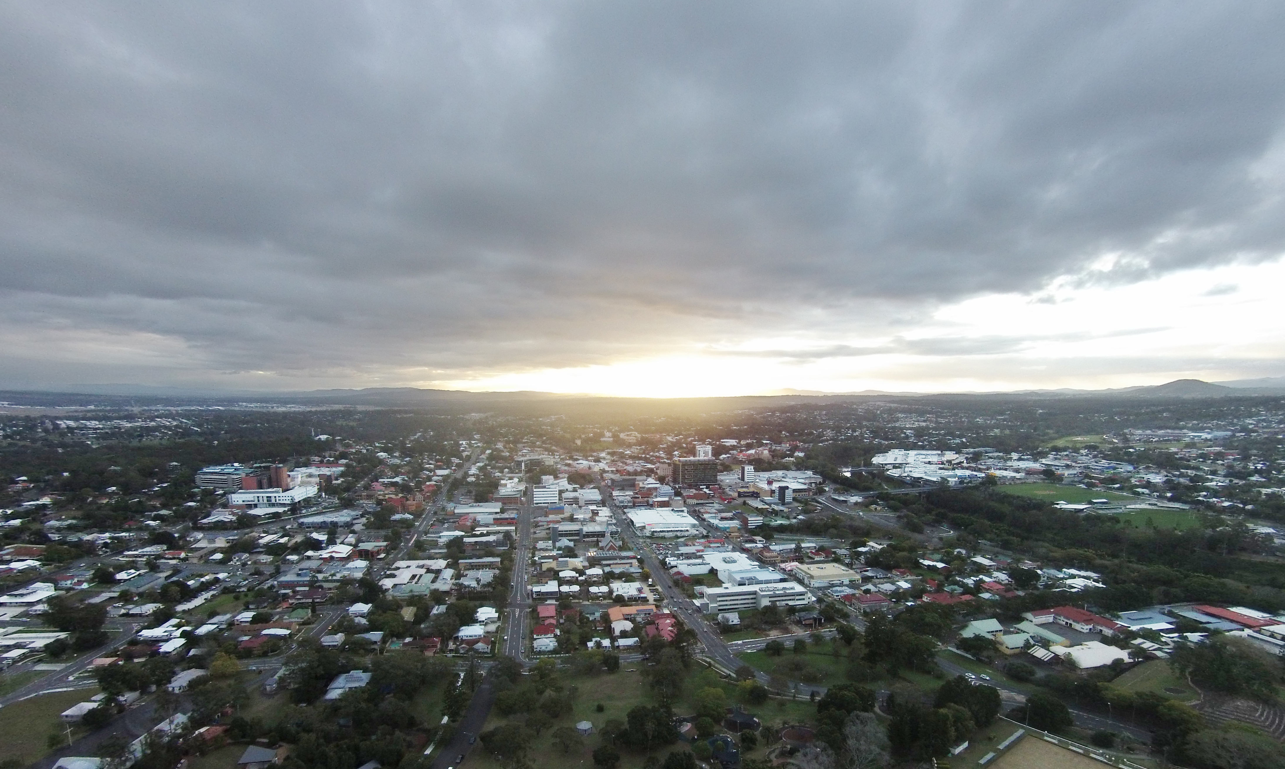 Ipswich QLD Australia city skyline aerial shot of Ipswich CBD and surrounds